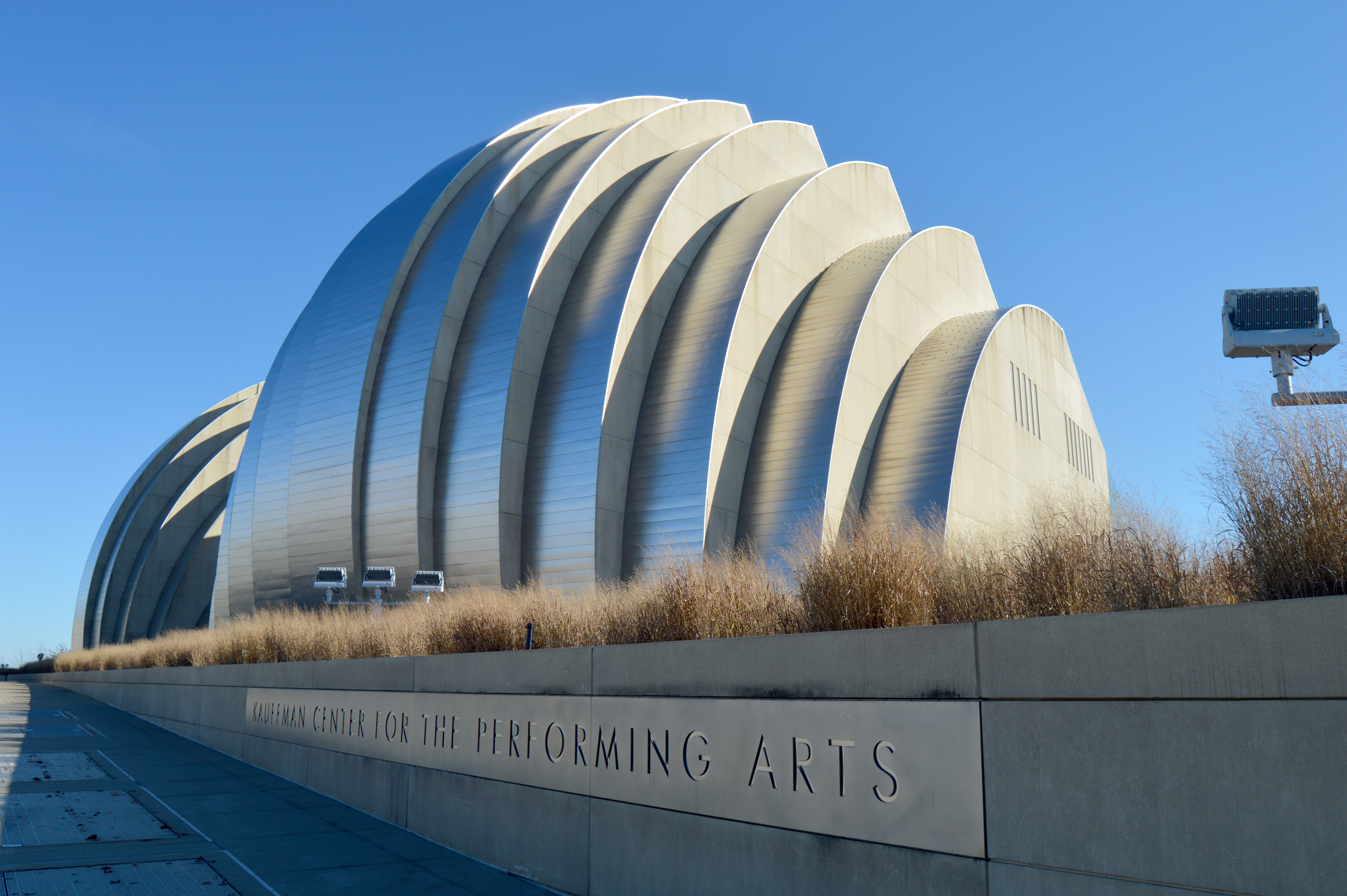 Kauffman Center for Performing Arts at daytime in Kansas City, MO.